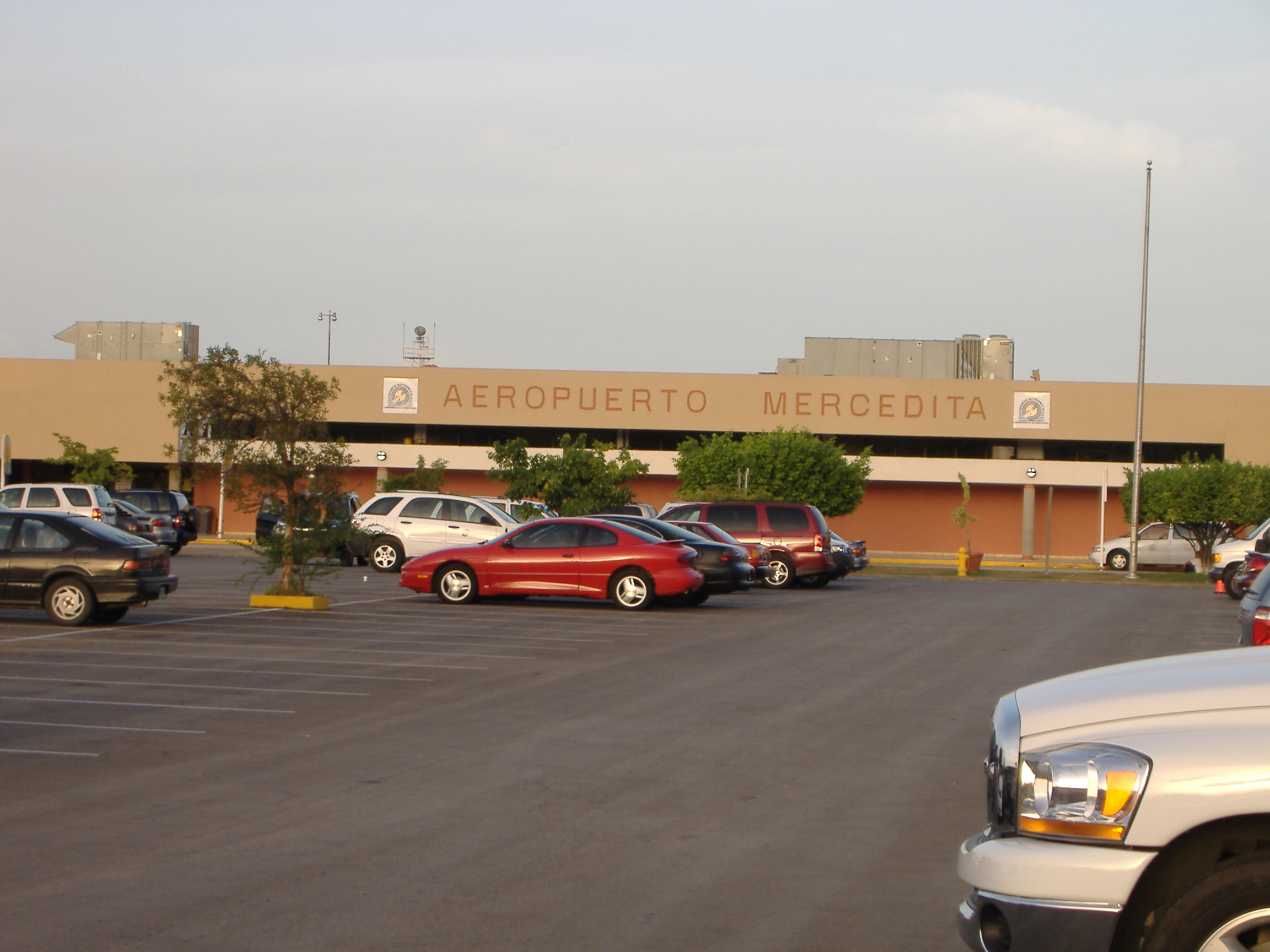 View of the Mercedita Airport in Ponce, Puerto Rico.